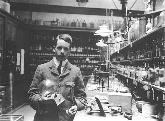 Moseley in the Balliol-Trinity College Laboratories, soon after his graduation.